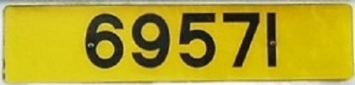 Guernsey license plate, rear, yellow